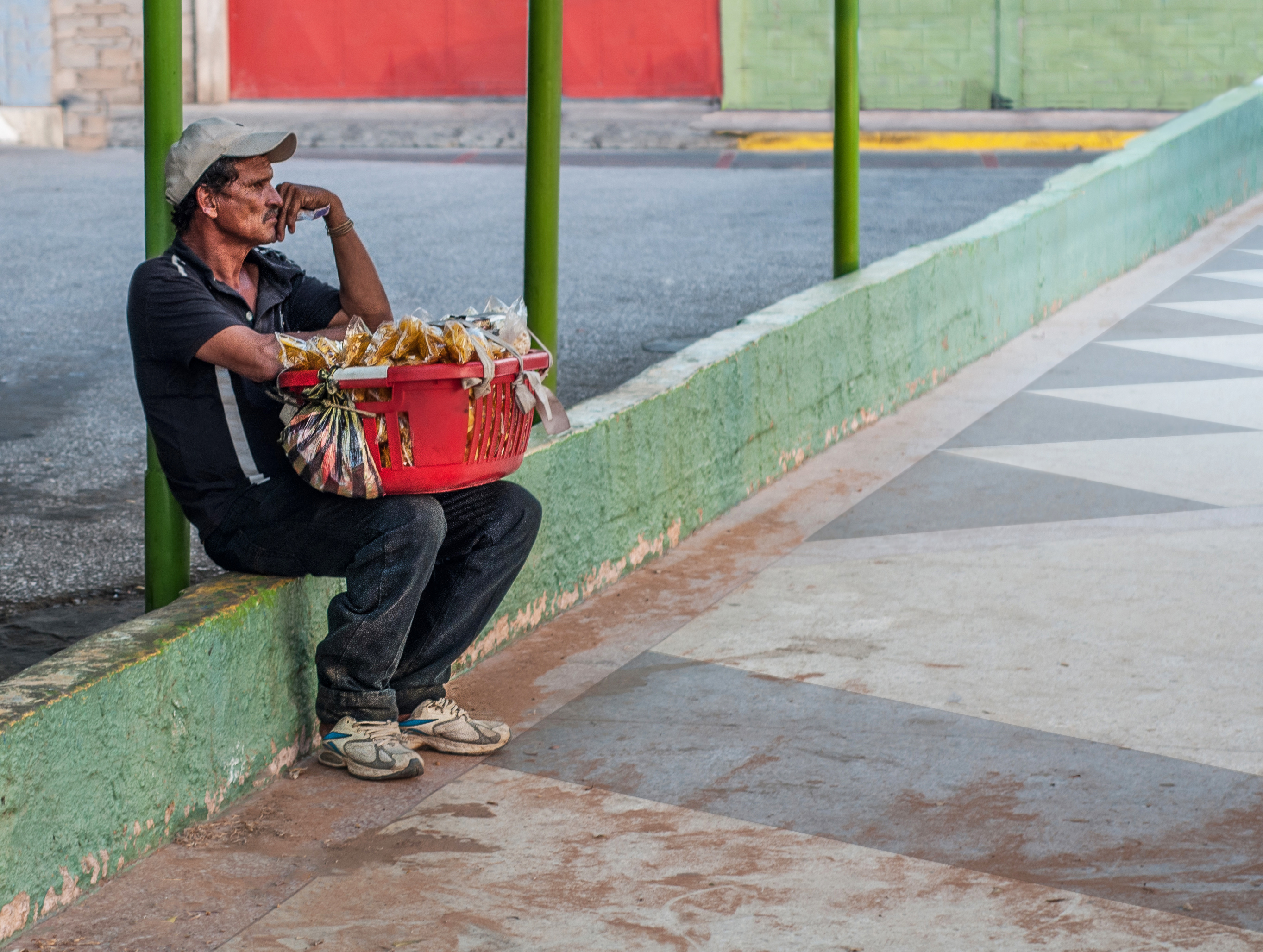 A bad sales day, street salesmen on Maracaibo downtown, Venezuela